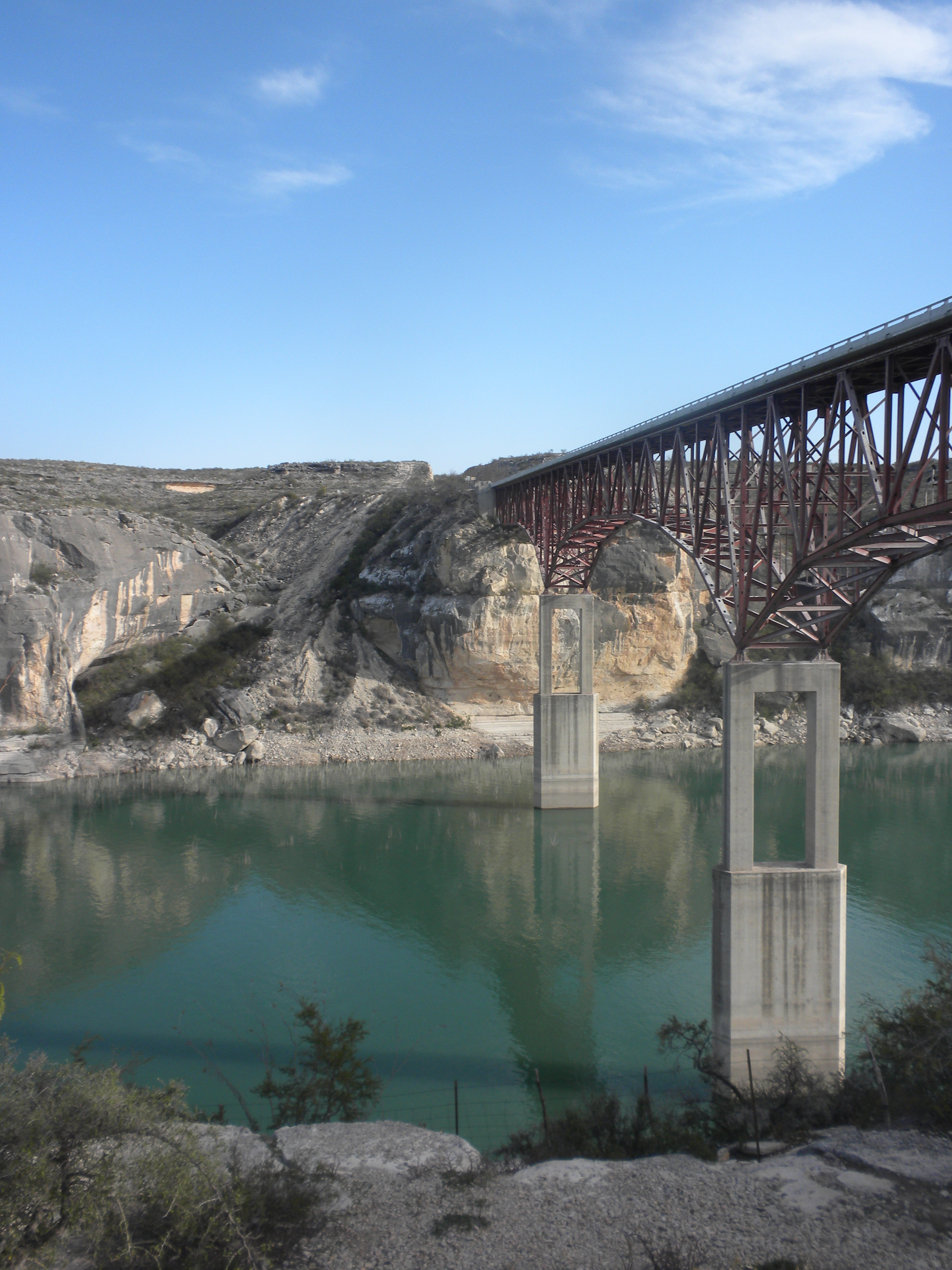 Pecos River Bridge carries U.S. Route 90 over the Pecos River, in southwestern Texas.